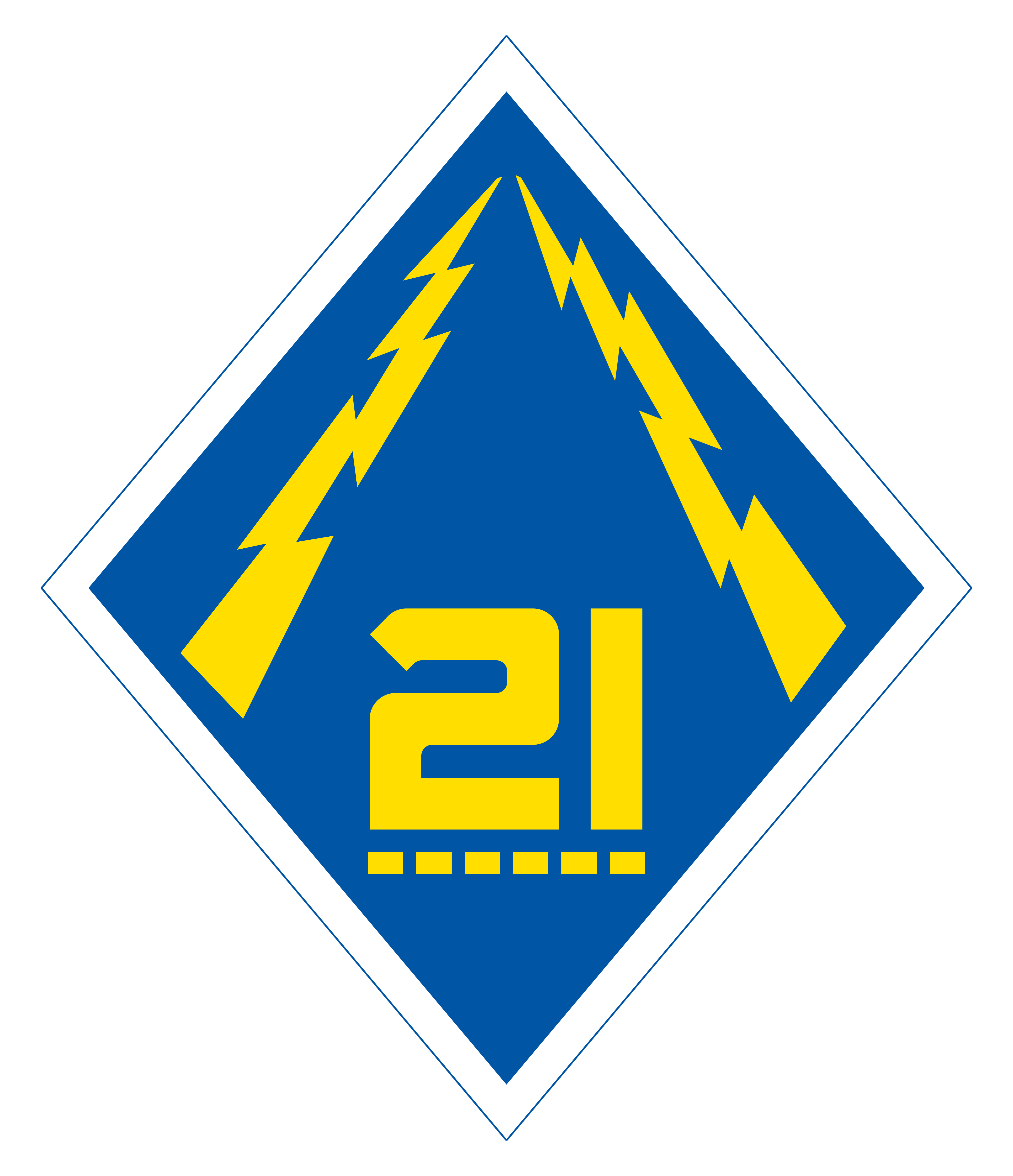 21st Philippine Division emblem from 1941-42 (simplified "21" version), probably developed early in that period or just prior; color versions of this are a matter of record, and bronze version(s) of these emblems are seen on monuments around the Philippines.